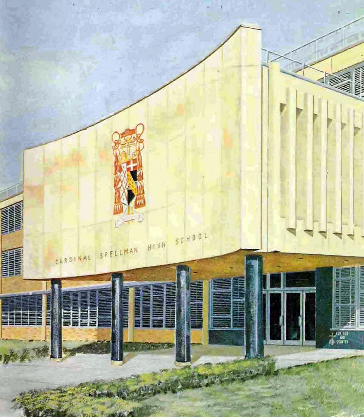 Front of CSHS